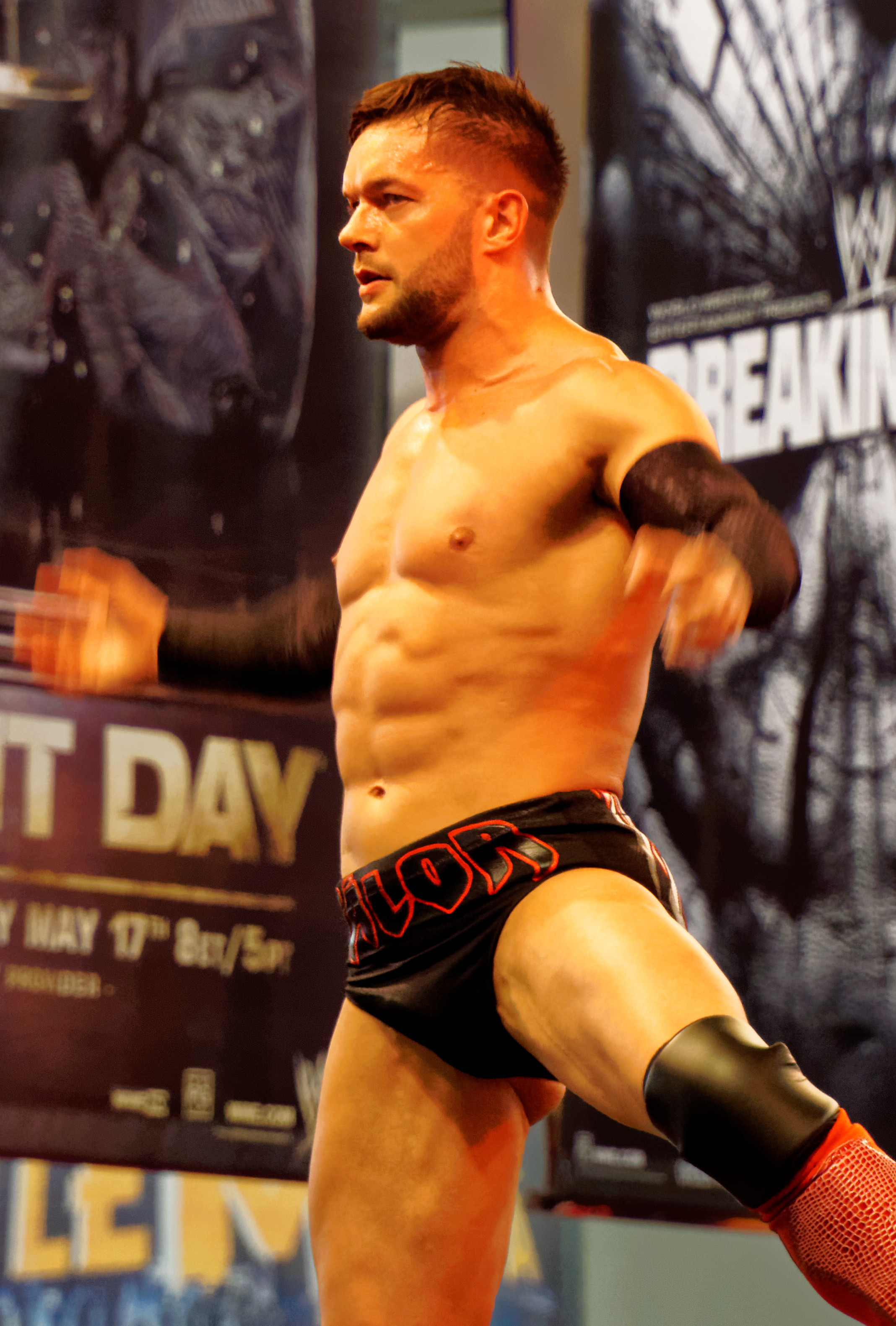 Finn Balor at WrestleMania 31 Axxess in March 2015.